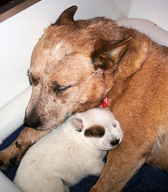 A red Australian Cattle Dog with a red puppy whose colour has not yet developed.